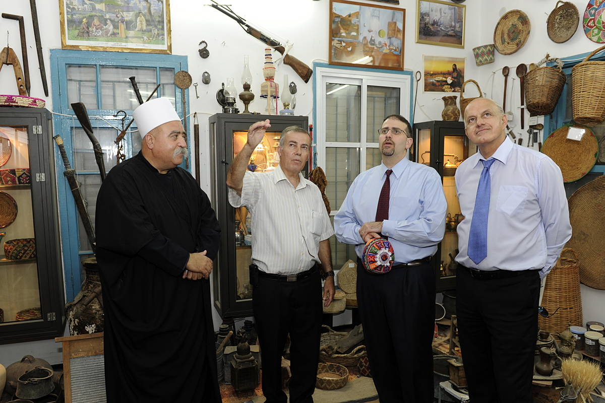 Local Caption *** Ambassador Shapiro visit the Druze Heritage museum in Julis